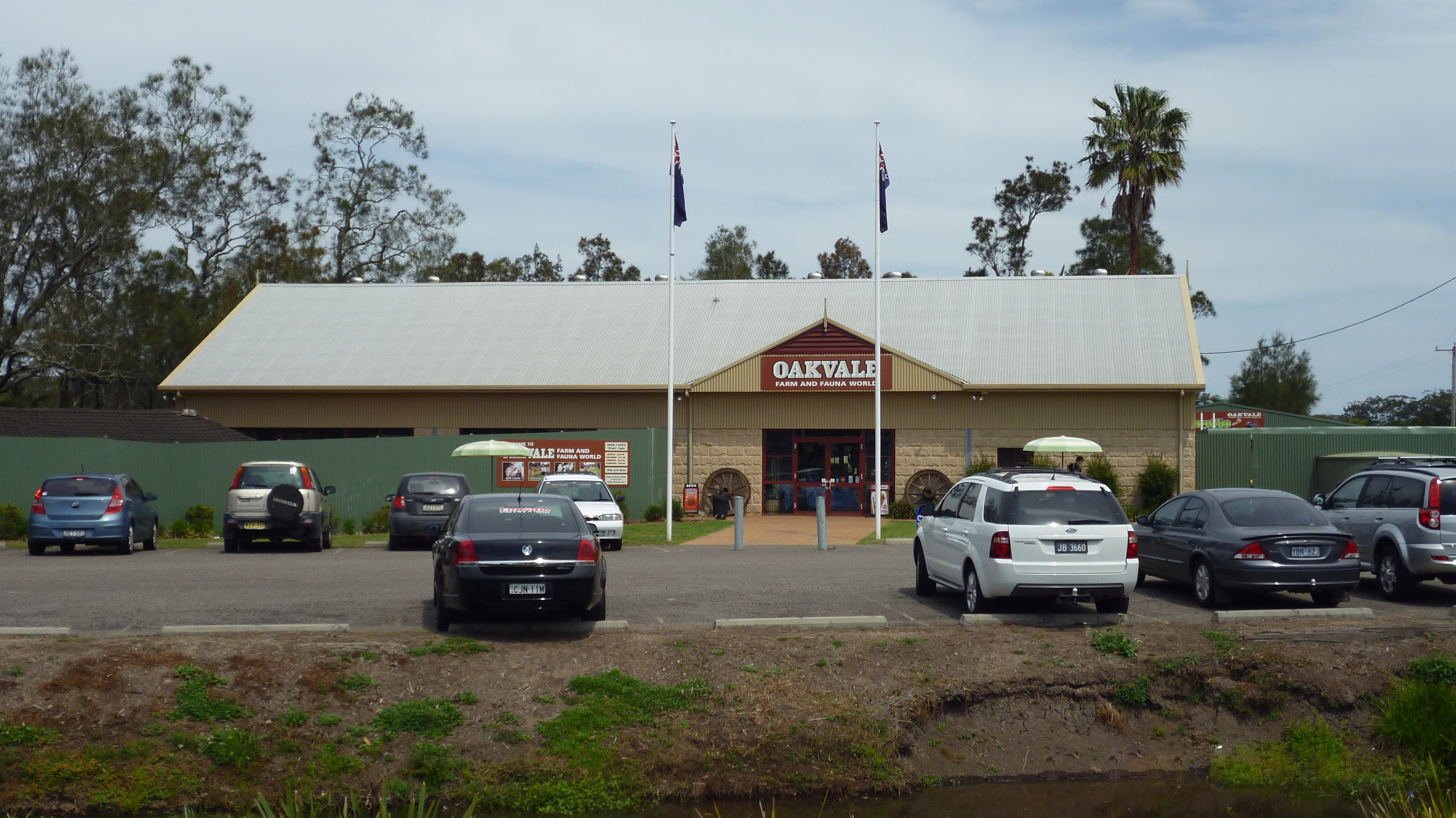 Entrance to Oakvale Farm and Fauna World at Salt Ash in New South Wales, Australia.